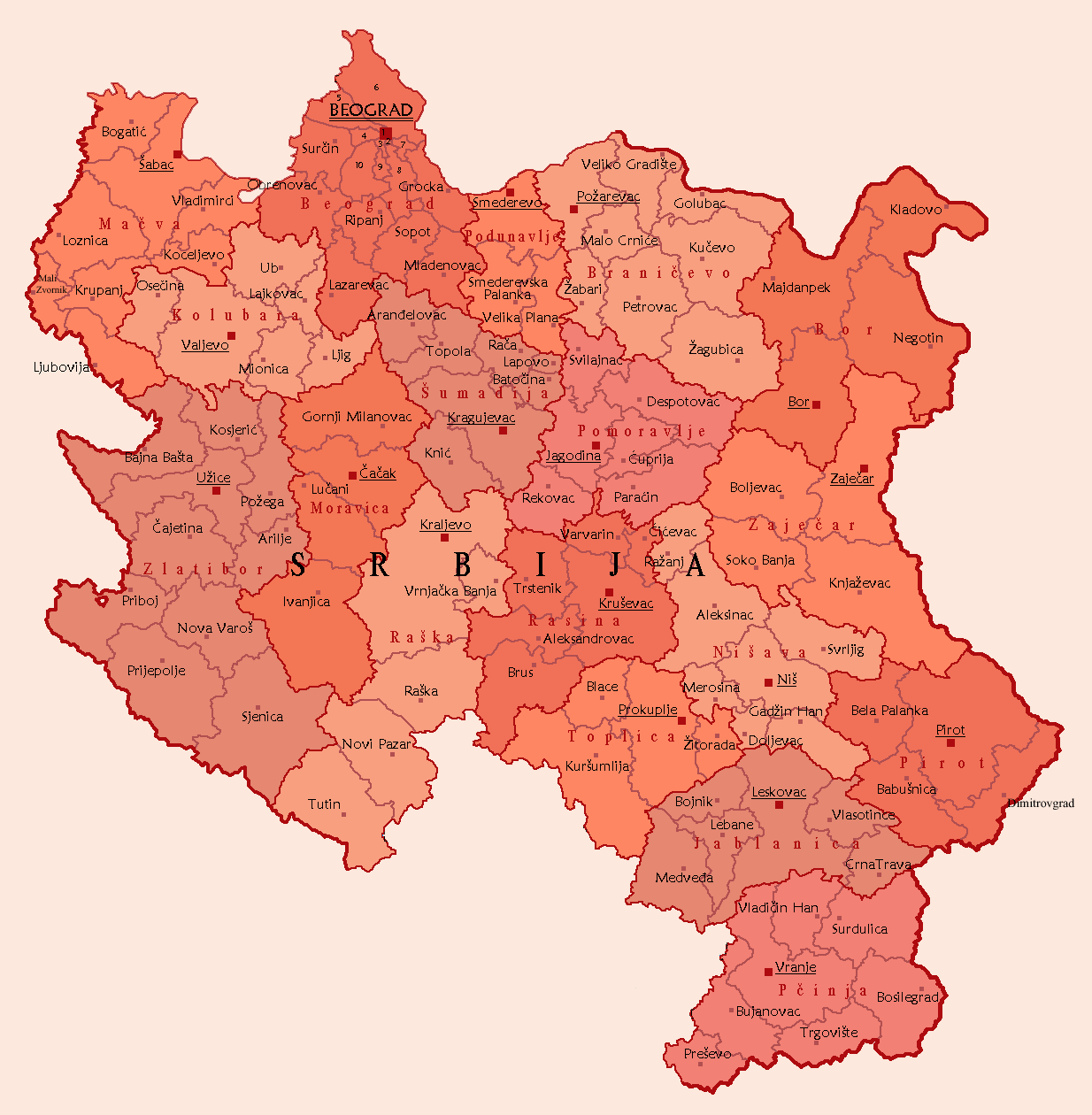 map is created from this file: (original author of the file is User:Alinor from English Wikipedia) - user PANONIAN has modified this file and uploaded it here under same licence.